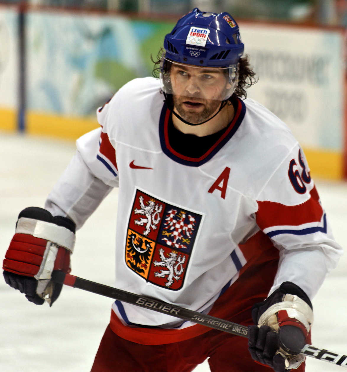 Jaromir Jagr, Olympics 2010 This file has been extracted from another file: JaromirJagr2010WinterOlympics.jpg